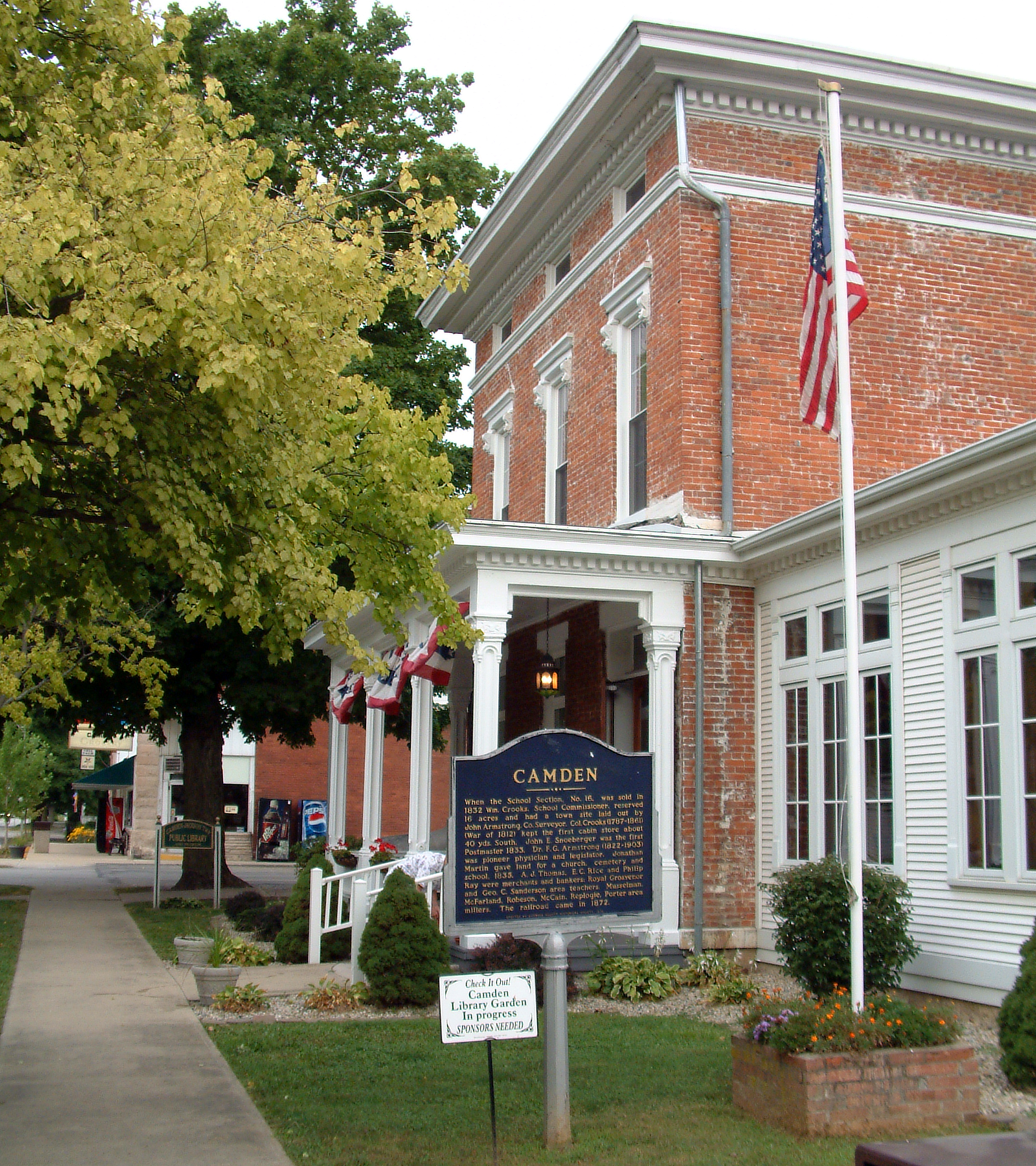 Looking west along Main Street in the town of Camden, Indiana, with the town's historical marker in the foreground. Behind it is the Andrew Thomas House (now the Camden-Jackson Township Public Library), an Italianate, Greek Revival building on the National Register of Historic Places. The east side of the marker reads: Camden When the School Section, No. 16, was sold in 1832 Wm. Crooks, School Commissioner, reserved 16 acres and had a town site laid out by John Armstrong, Co. Surveyor. Col. Crooks (1787-1861) (War of 1812) kept the first cabin store about 40 yds. south. John E. Snoeberger was the first Postmaster 1833. Dr. F. G. Armstrong (1822-1903) was pioneer physician and legislator. Jonathan Martin gave land for a church, cemetery and school, 1835. A. J. Thomas, E. C. Rice and Philip Ray were merchants and bankers; Royal Grosvenor and Geo. C. Sanderson area teachers. Musselman, McFarland, Robeson, McCain, Replogle, Porter area millers. The railroad came in 1872. The reverse (west) side of the marker reads: Jackson Township John Odell entered the first land in 1825. The twp. was laid out in 1830, extending East and South to the county line. About 1827 Moses Aldridge, Elisha Brown, Adam Porter, John & Jeremiah Ballard settled on Bachelor's Run. Other settlers were Wm. Hance, 1828, Wm. Armstrong, John Lenon 1829, Philip Hewitt, Peter Replogle, Thos. Sterling, Saml. Wise, Peter Iman, John Musselman, Levi Cline, Jas. & Wm. Martin, Jacob Humrickhouse and David Zook. Lower Deer Creek Church of Brethren was organized in 1828 by Peter Replogle, Samuel Wise and Peter Iman, first minister. Other ministers were H. Vredenburg, Nebo Methodist; John P. Hay, Cumberland Presbyterian 1830.